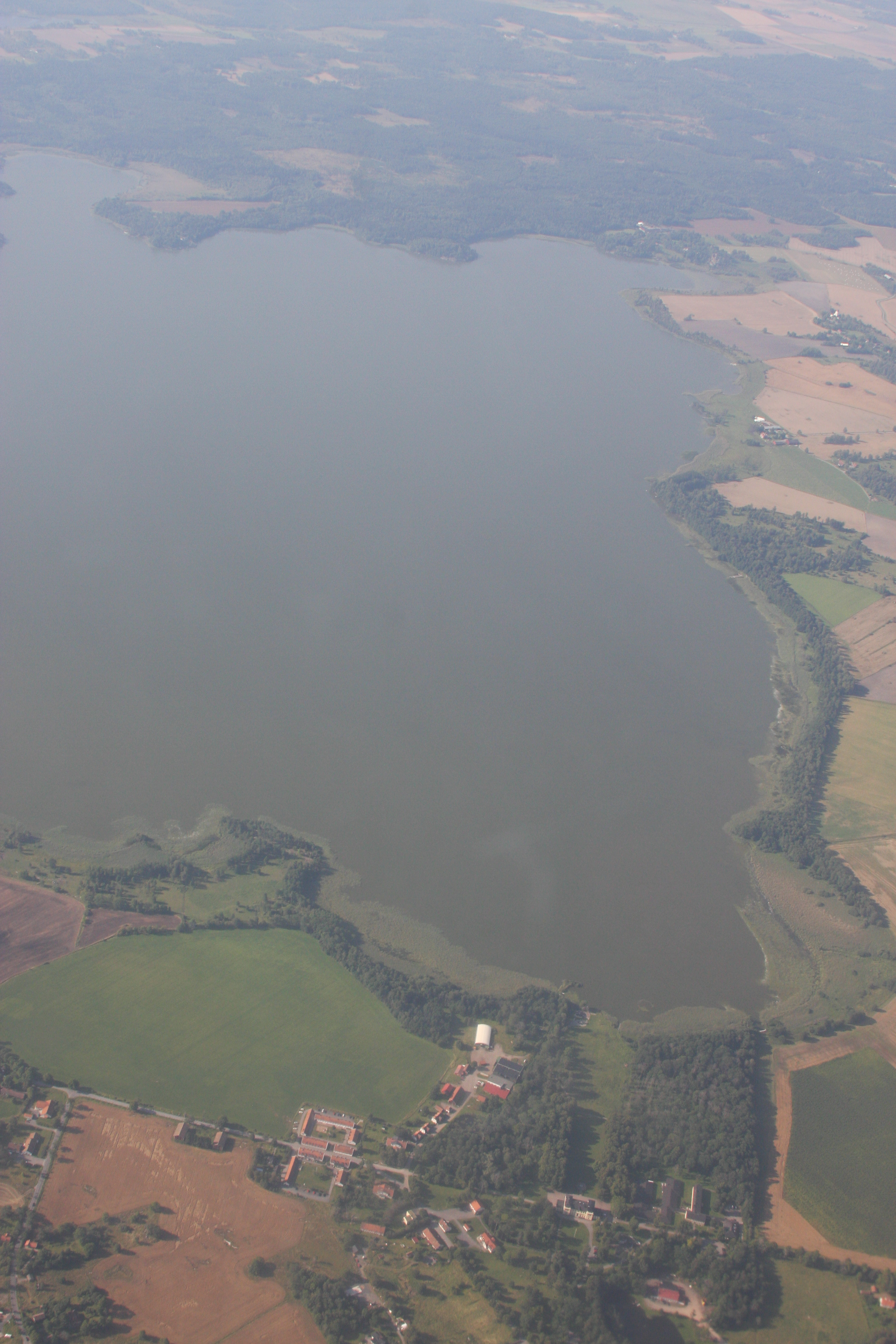 Rånäs village, northeast by the Lake Skedviken, Norrtälje kommun, eastern Sweden